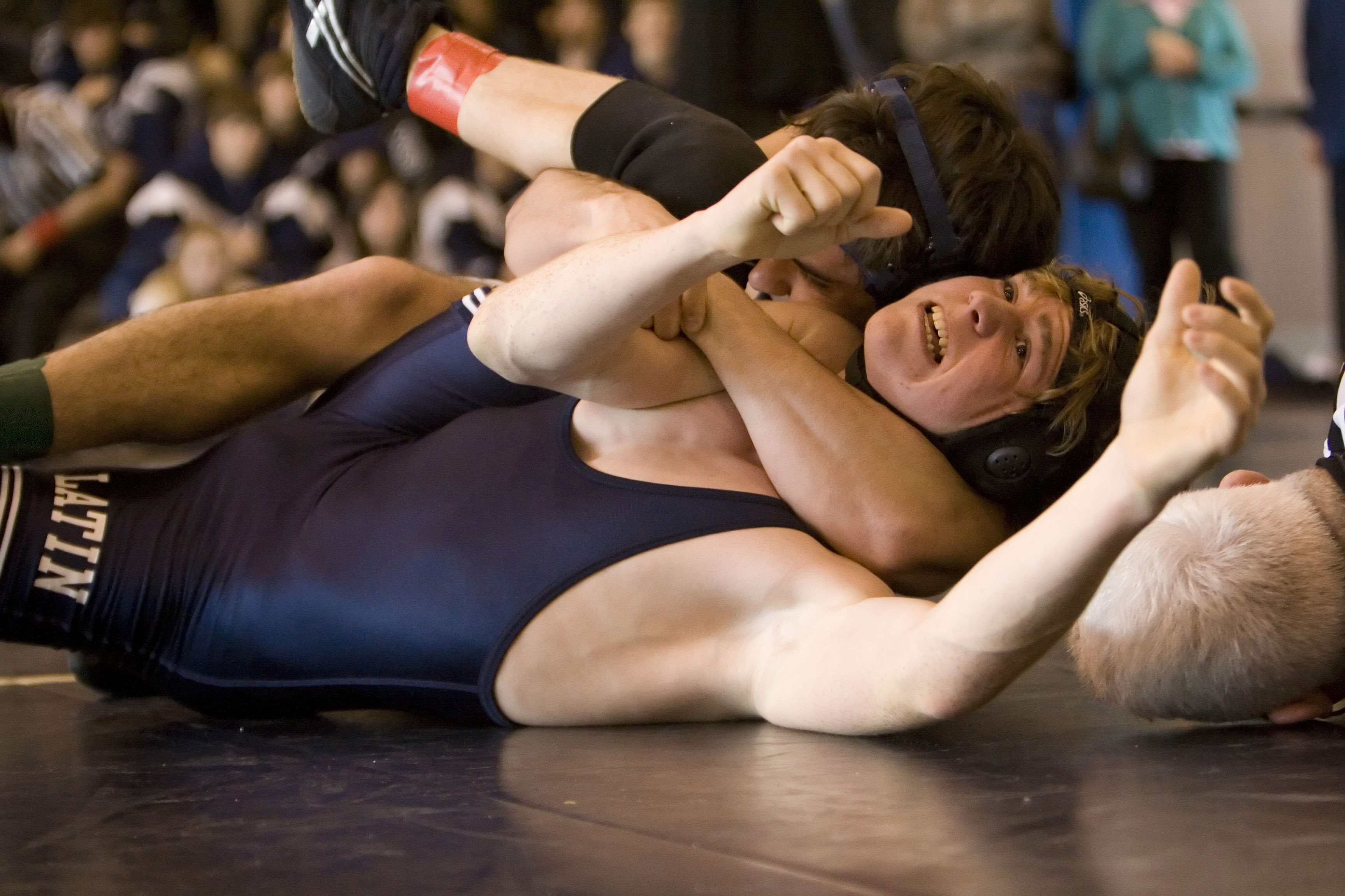 Two high school students wrestling (collegiate, scholastic, or folkstyle) in the United States. One of them, pictured here, is in a cradle. Originally uploaded by Wikiman86 on the English Wikipedia project at